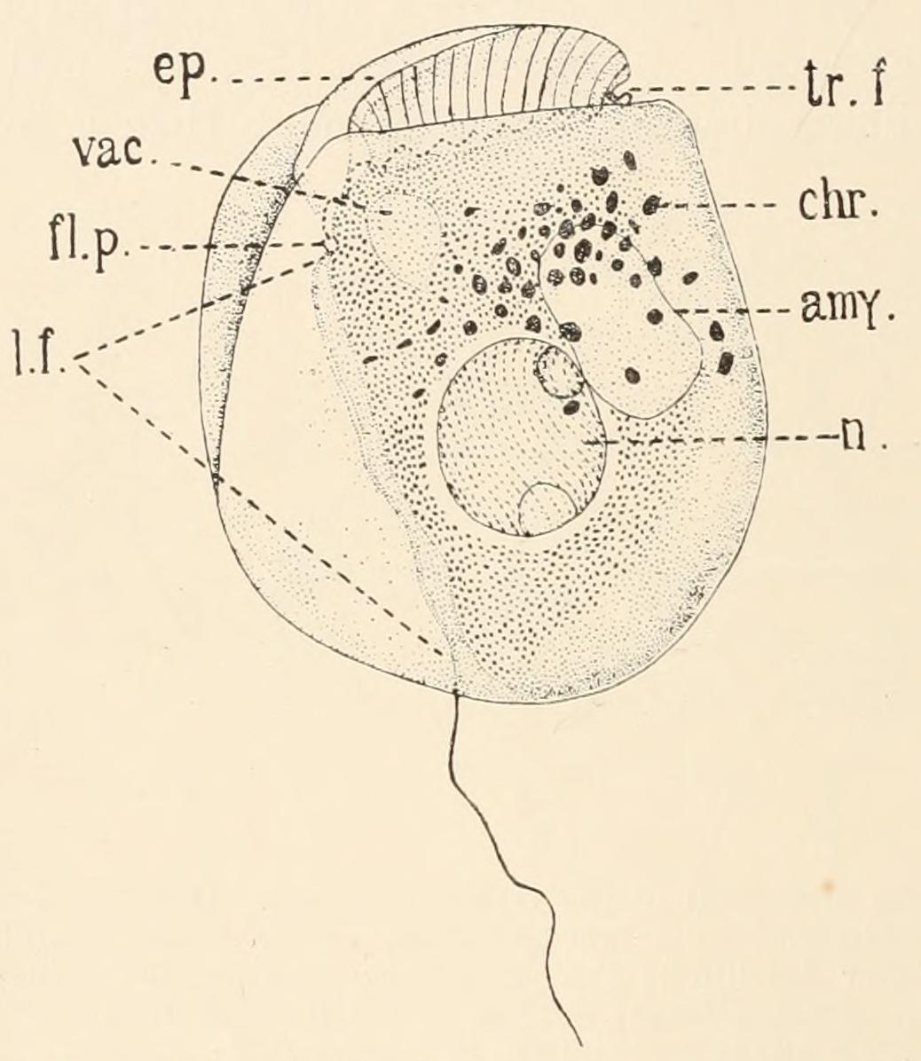 Page 52 of Algæ. Vol. I. Myxophyceæ, Peridinieæ, Bacillarieæ, Chlorophyceæ, together with a brief summary of the occurrence and distribution of freshwater Algæ Fig. 37. Lateral view of Amphidinium sulcatum Kofoid. amy., amyloid body; chr., chromatophore; ep., anterior part of cell in front of transverse furrow; fl.p., flagellar pore; l.f., longitudinal furrow; n., nucleus; tr.f., transverse furrow (with flagellum); vac., vacuole. ×740 (after Kofoid).